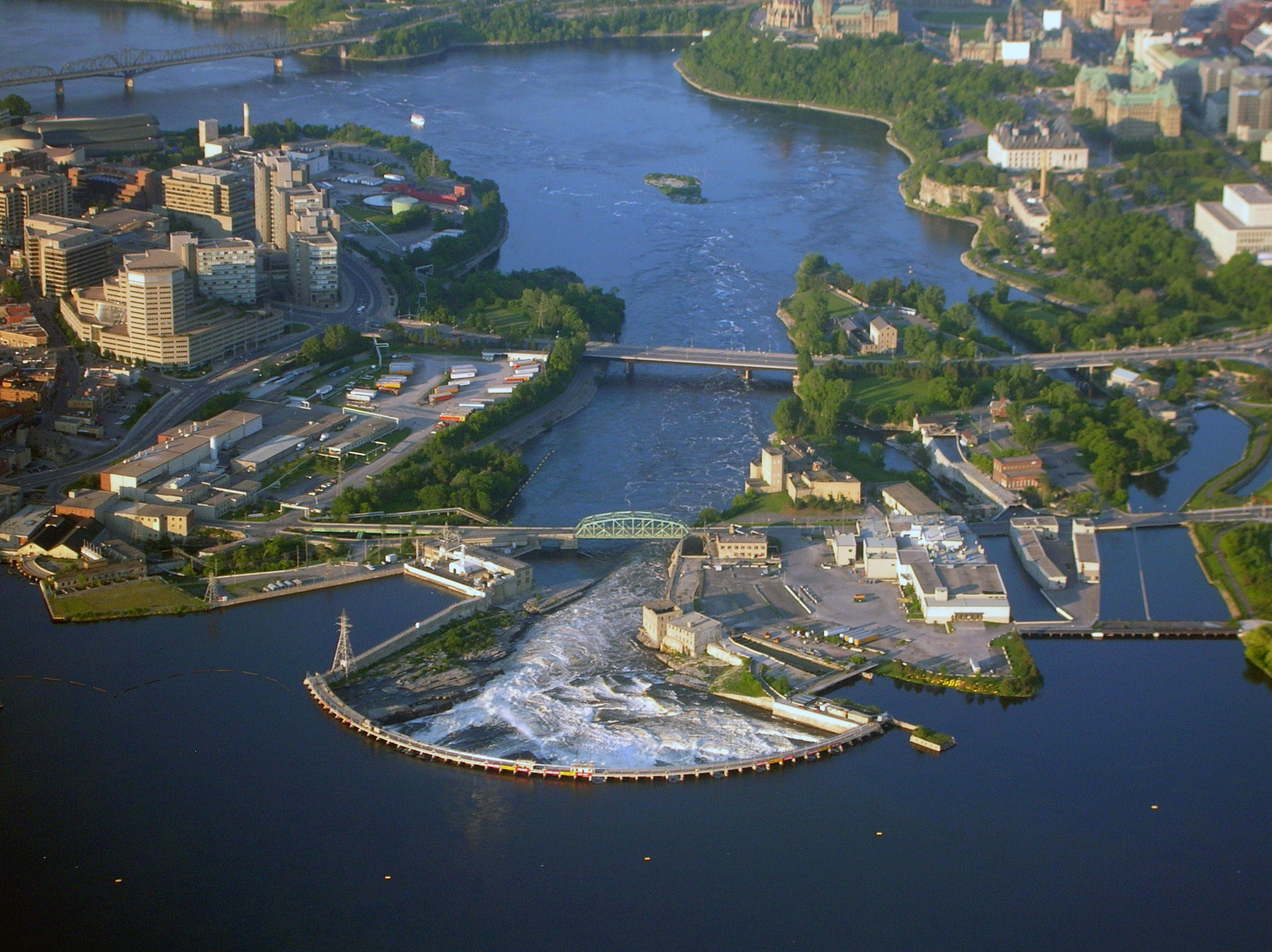 The Chaudière Falls in Ottawa in June, as seen during a hot air balloon ride